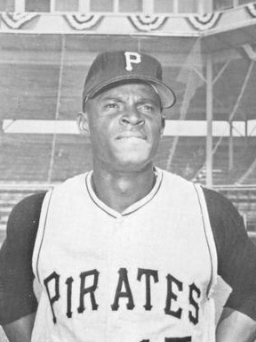 Professional baseball player Manny Mota